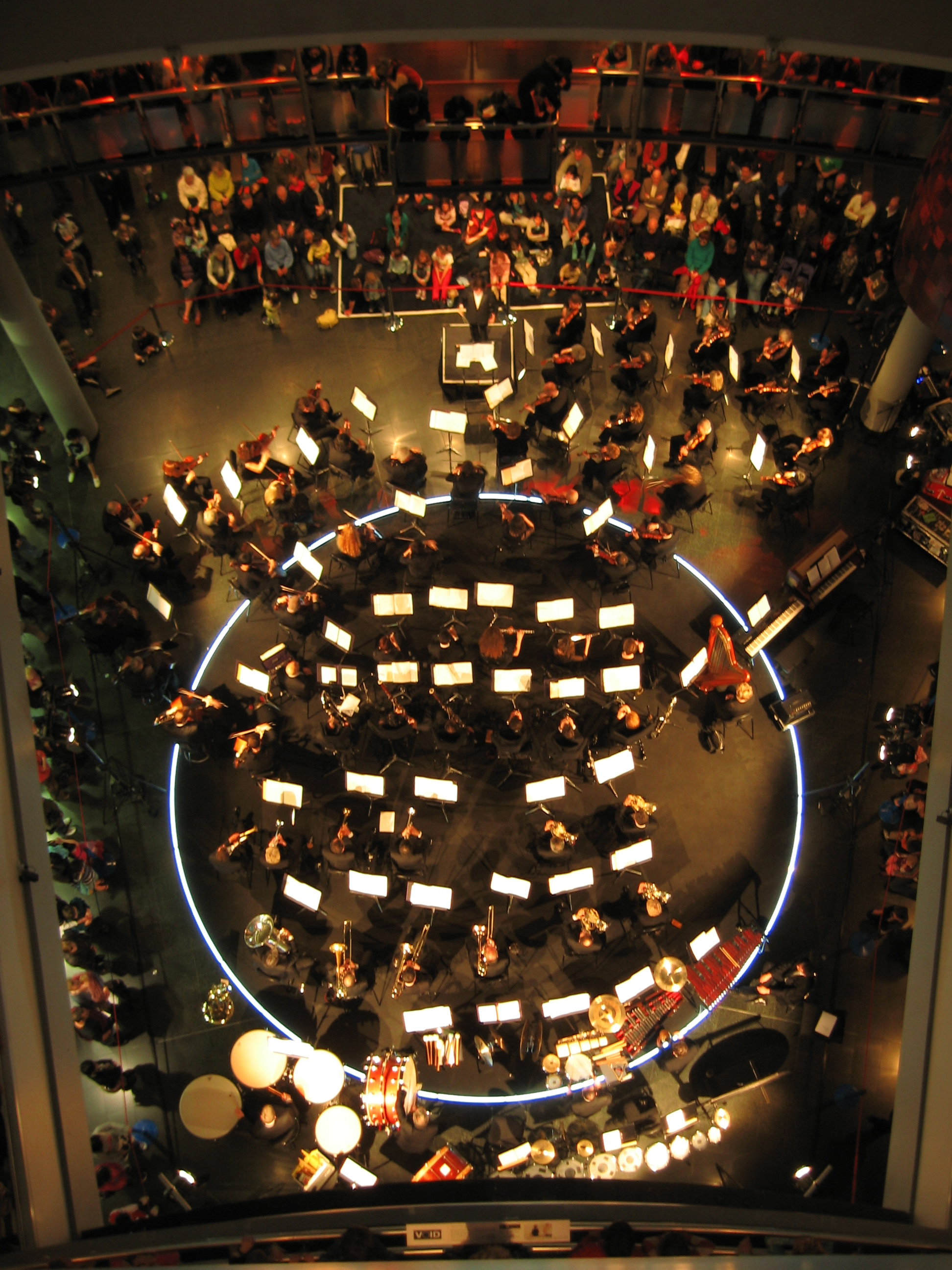 NZSO free concert, Te Papa